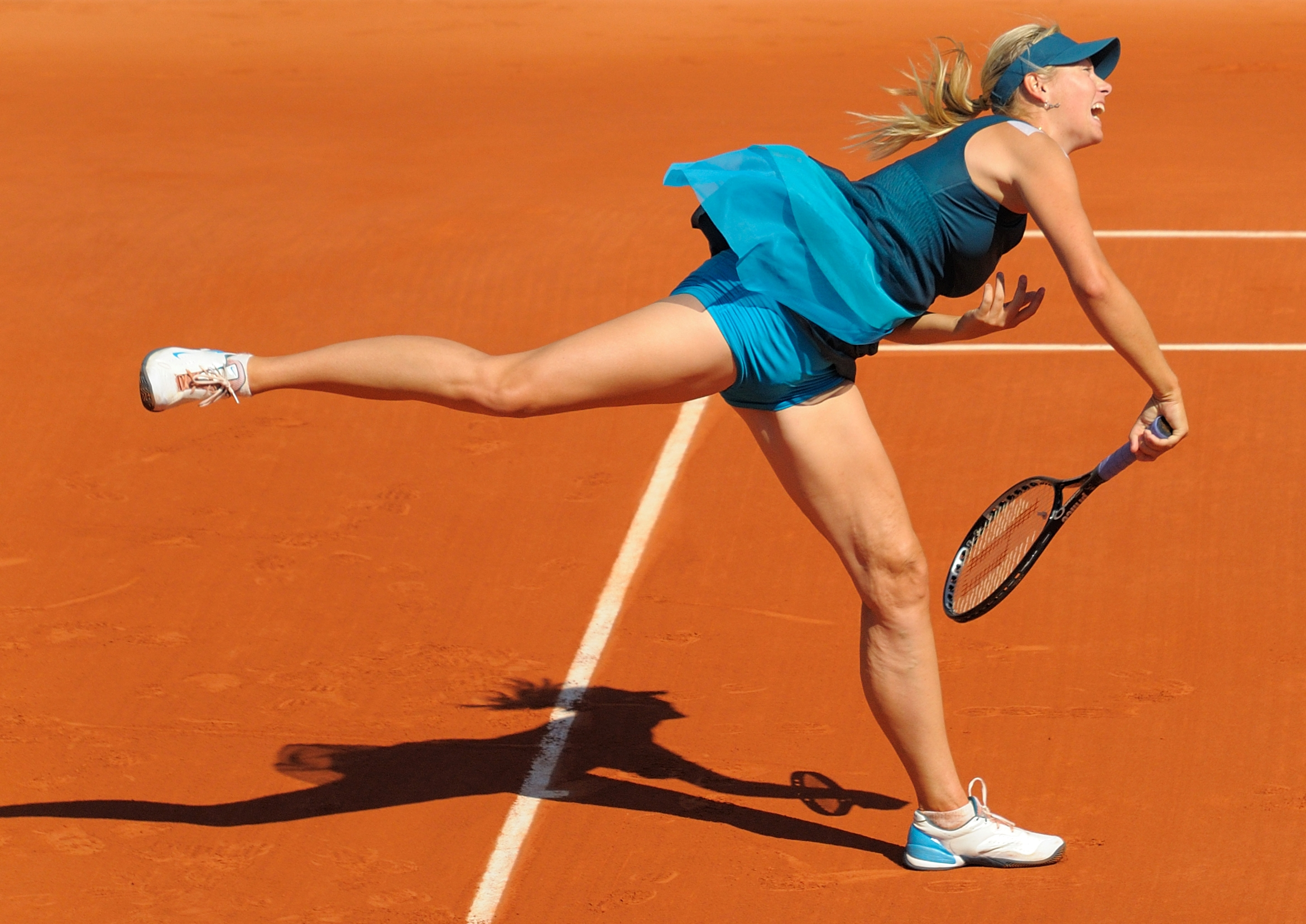 Maria Sharapova at 2009 Roland Garros, Paris, France